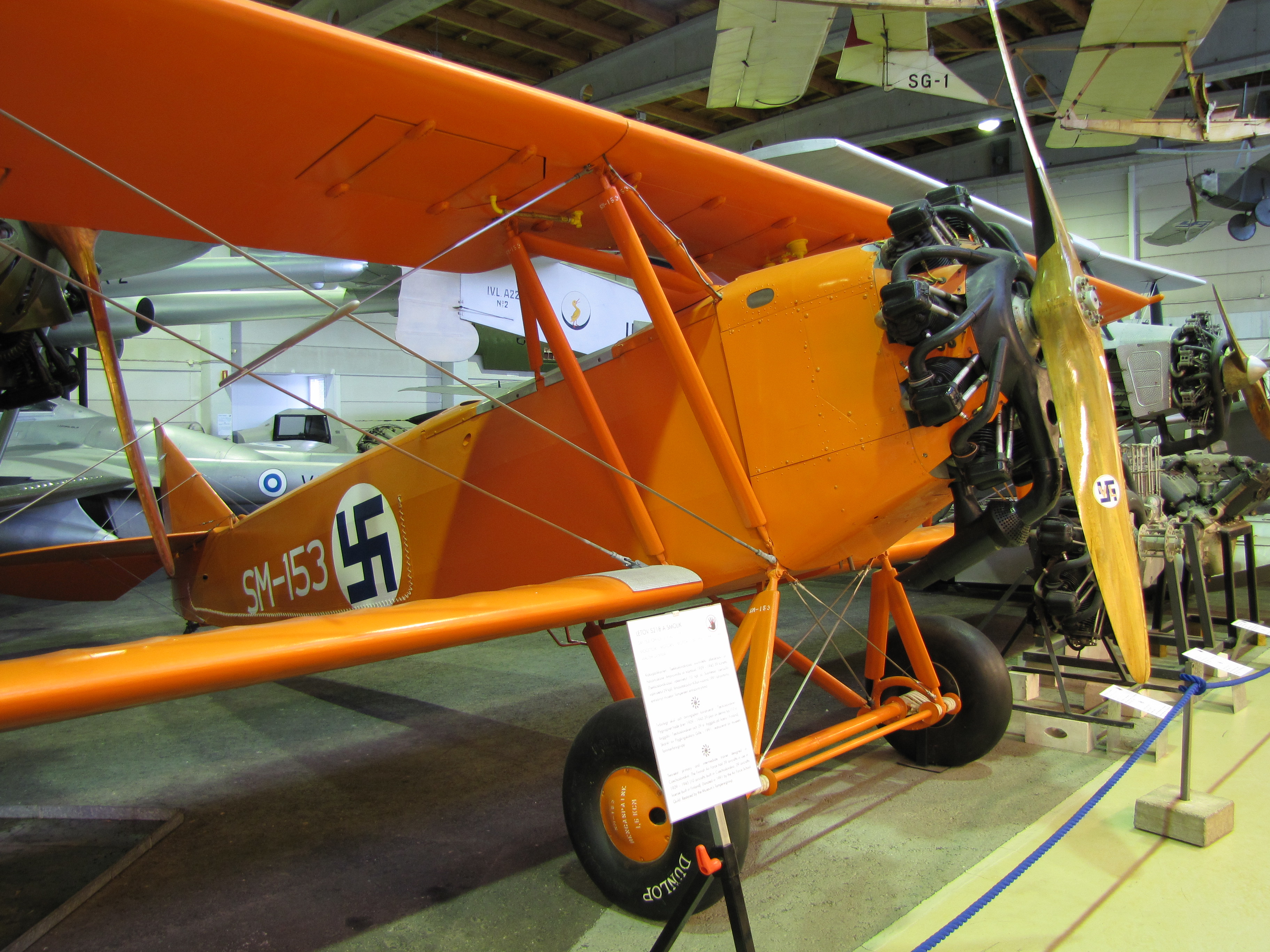 Letov Š-218 Smolik trainer in Finnish Aviation Museum. Former military registration SM-153, civil registry OH-ILS. Serial number VL11/17.